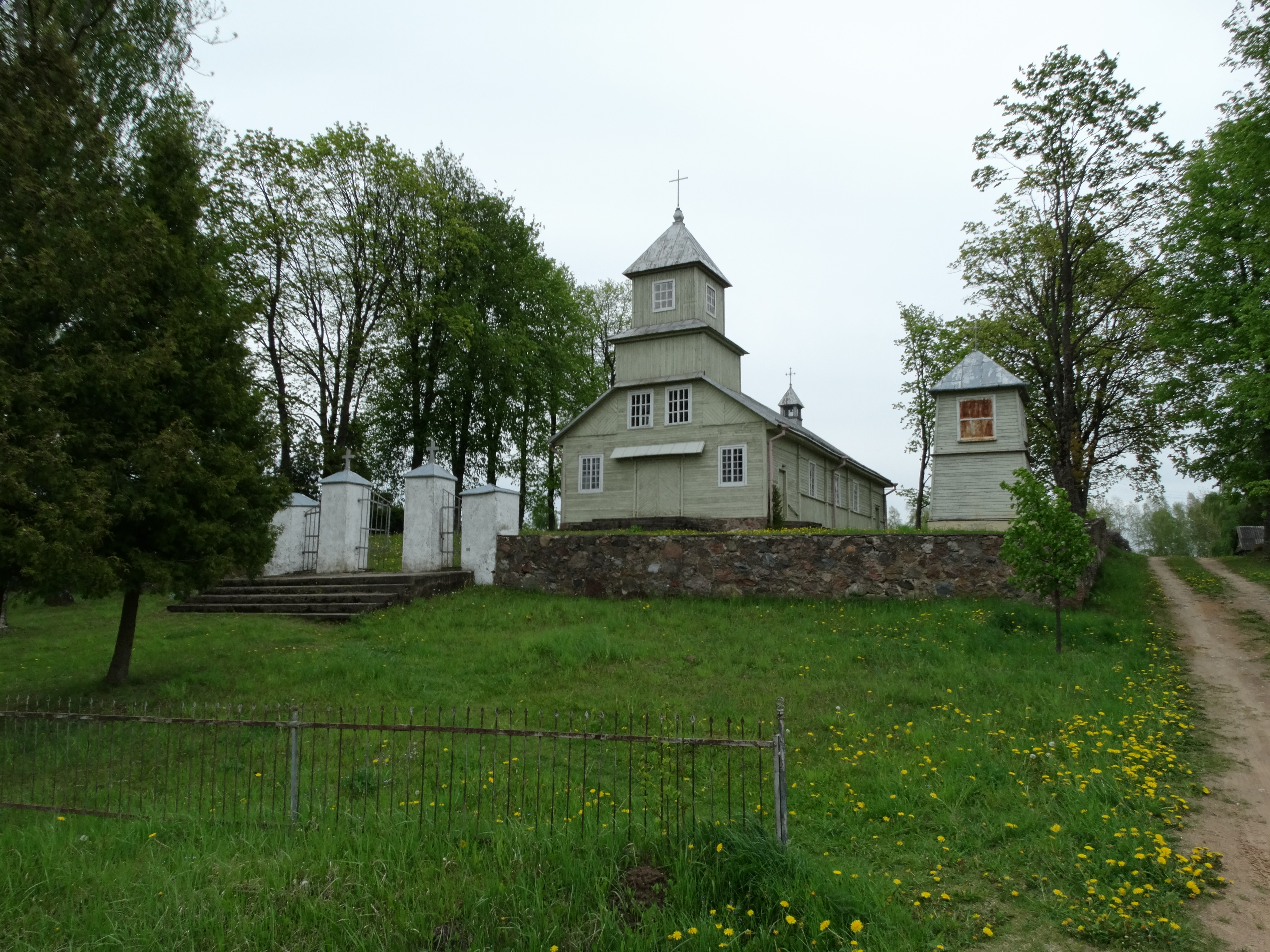 Catholic church in Pusnė, Molėtai District, Lithuania